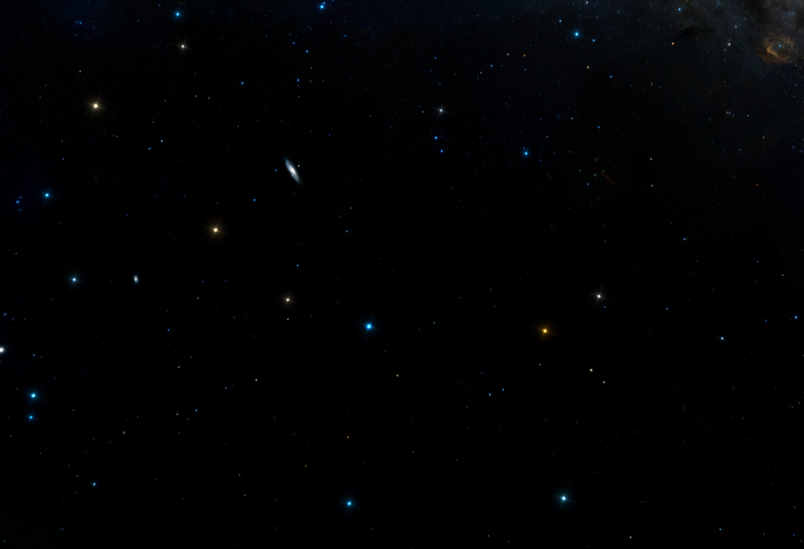 This chart locates the star Kappa Andromedae, which is visible to the unaided eye from suburban skies. Kappa And b orbits its star at a projected distance of 55 times Earth's average distance from the sun and about 1.8 times as far as Neptune; the actual distance depends on how the system is oriented to our line of sight, which is not precisely known. The object has a temperature of about 2,600 degrees Fahrenheit (1,400 Celsius) and would appear bright red if seen up close by the human eye. Carson's team detected the object in independent observations at four different infrared wavelengths in January and July of this year. Comparing the two images taken half a year apart showed that Kappa And b exhibits the same motion across the sky as its host star, which proves that the two objects are gravitationally bound and traveling together through space. Comparing the brightness of the super-Jupiter between different wavelengths revealed infrared colors similar to those observed in the handful of other gas giant planets successfully imaged around stars.